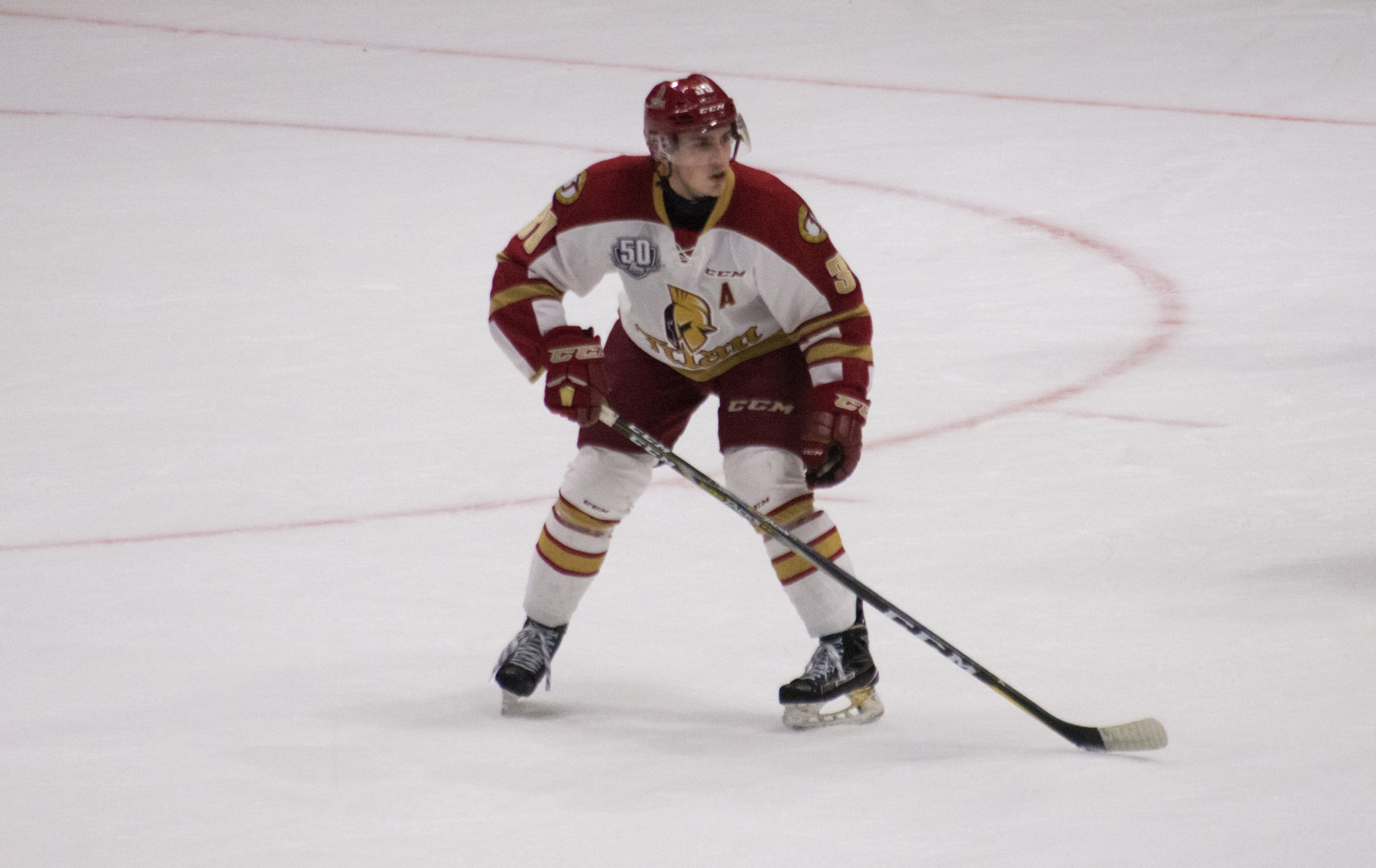 Quebec Remparts vs Acadie-Bathurst on Centre Vidéotron, Québec city